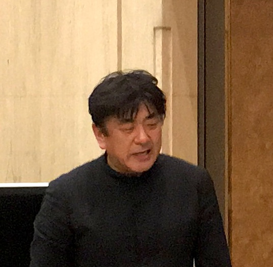 Yutaka Sado (佐渡 裕 Sado Yutaka, born 13 May 1961 in Kyoto) is a Japanese conductor.